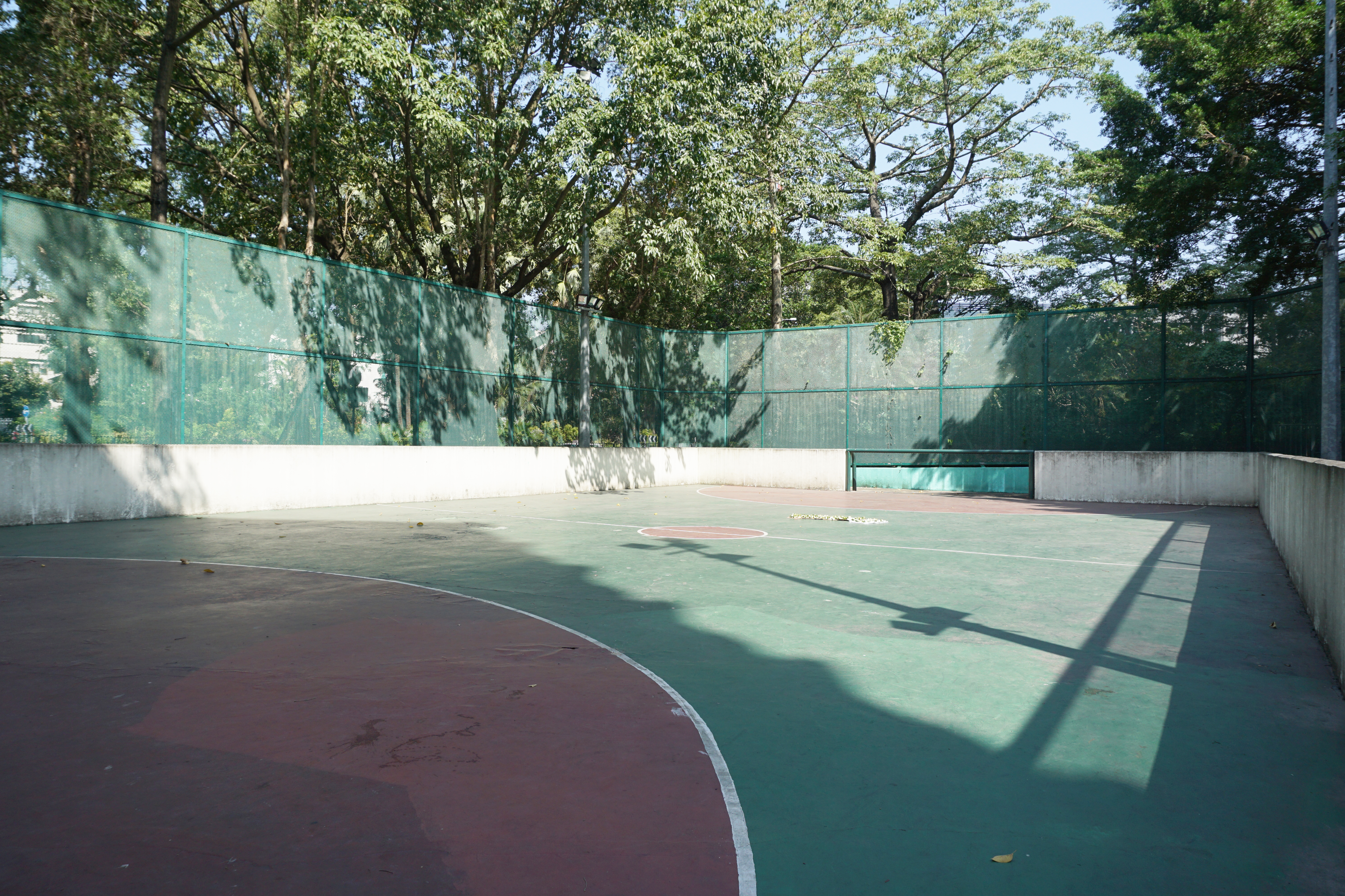 Cheung Wah Estate in Fanling, Hong Kong.